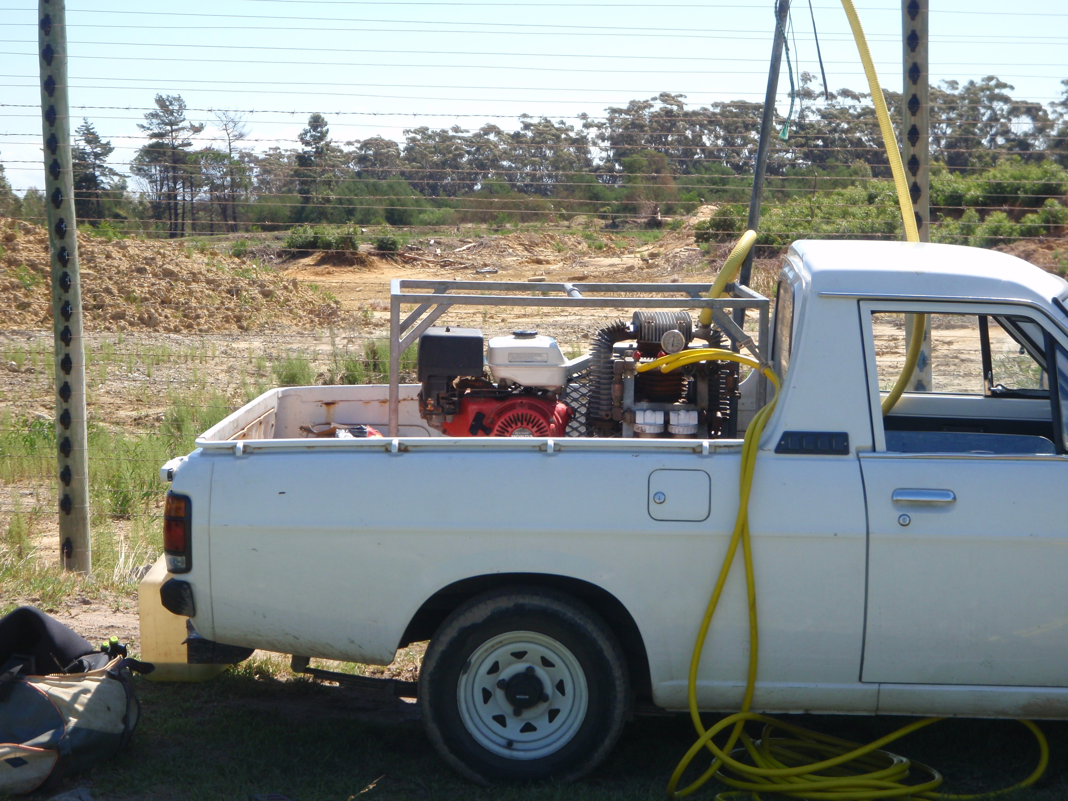 A low pressure breathing air compressor used for surface supplied diving in the back of a small pickup